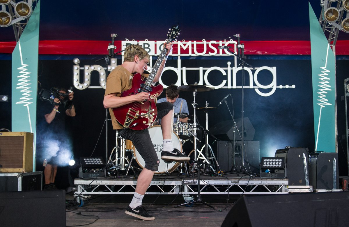 Gaffa Tape Sandy performing live on the BBC Music Introducing Stage at Glastonbury 2017